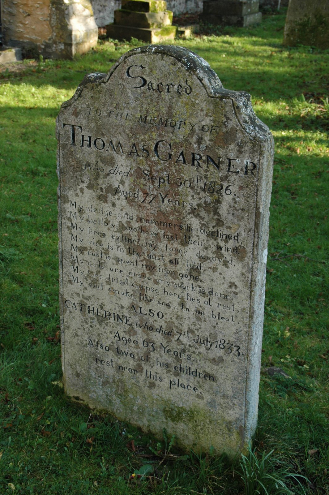 A gravestone for a village blacksmith with a suitably poetic epitaph. Located in the churchyard of St Mary's, Houghton, Cambridgeshire